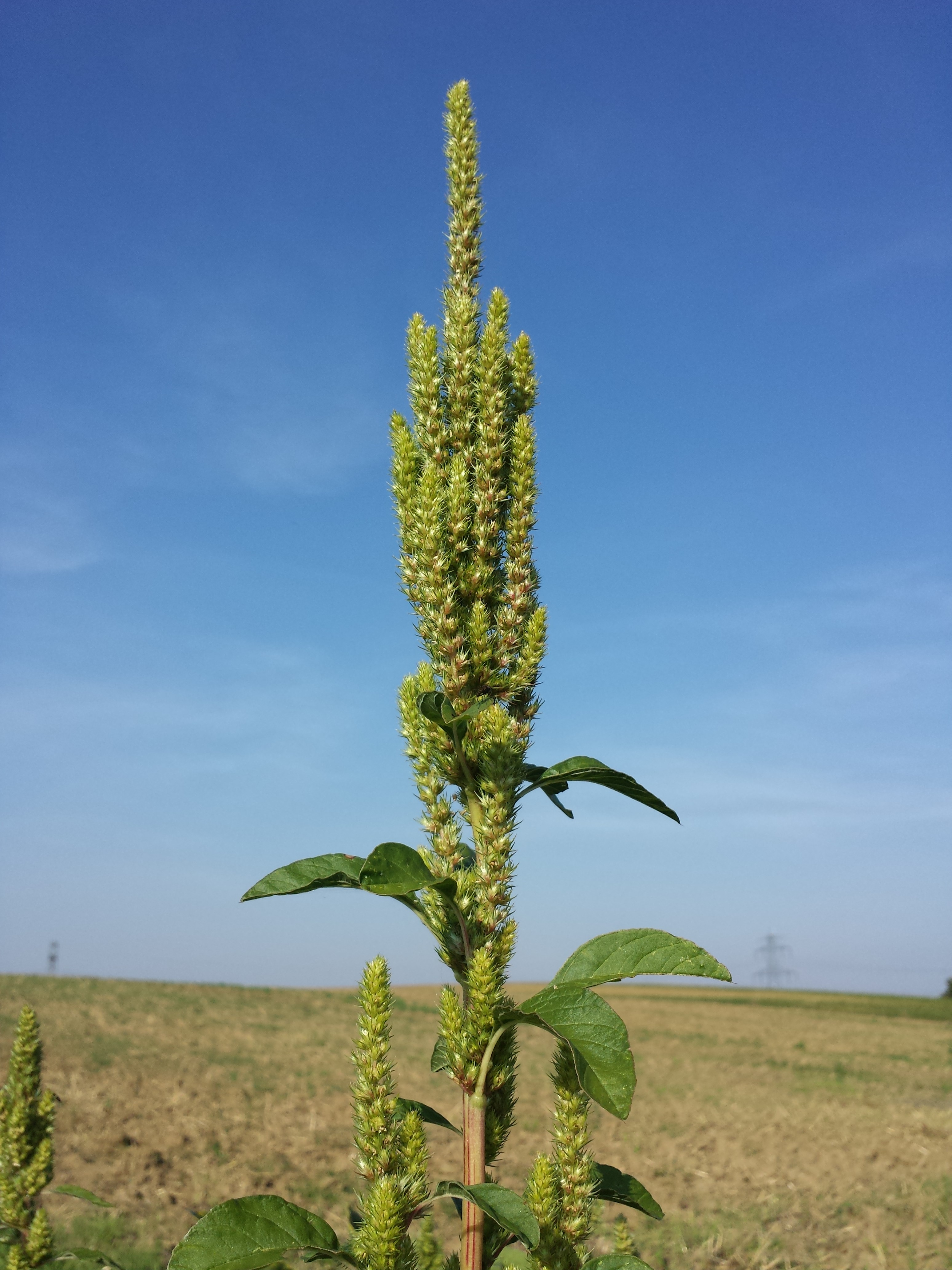 Inflorescence Taxonym: Amaranthus powellii subsp. powellii ss Fischer et al. EfÖLS 2008 ISBN 978-3-85474-187-9 Location: between Michelberg and Steinberg near Niederhollabrunn, district Korneuburg, Lower Austria - ca. 300 m a.s.l. Habitat: field